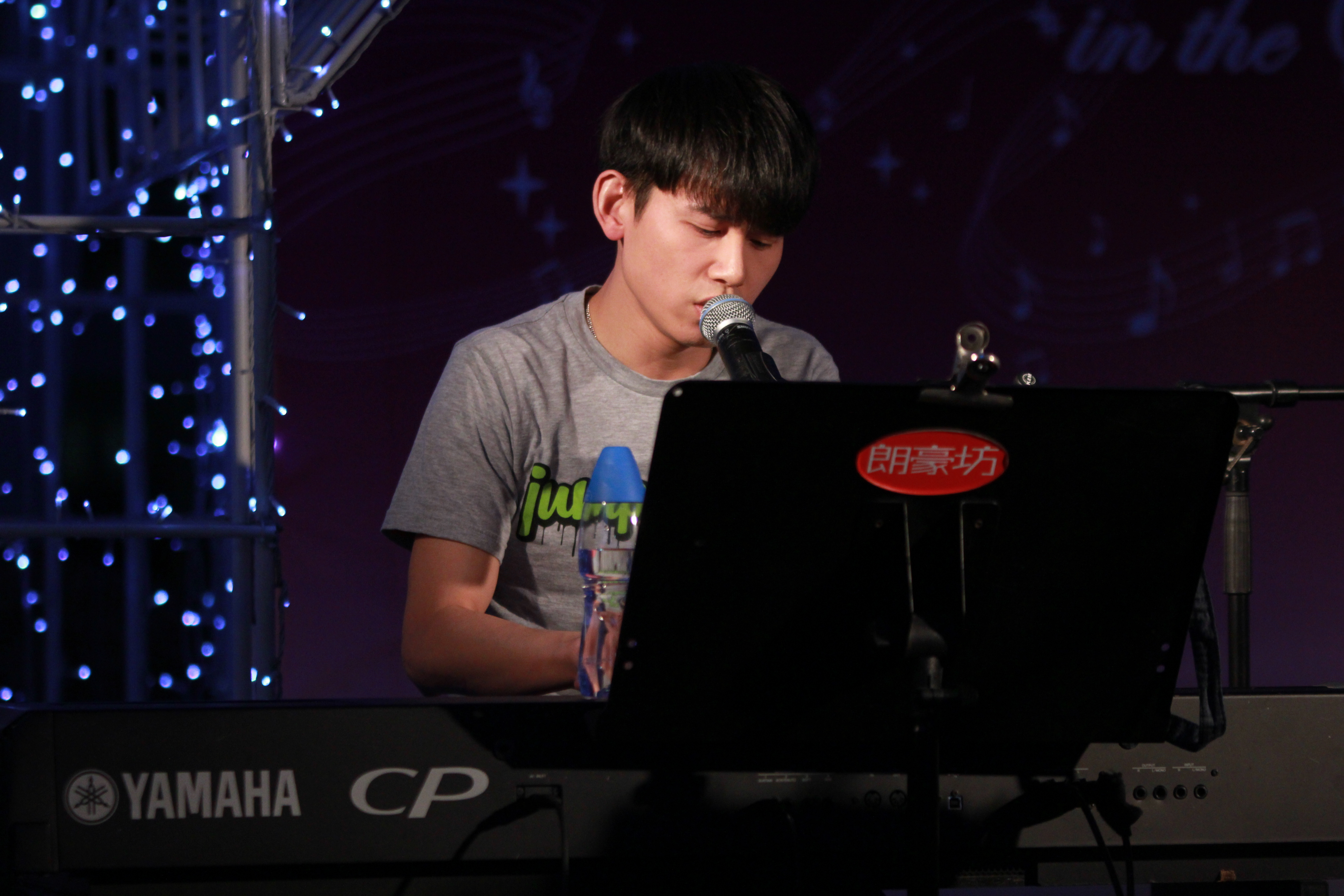 Photo by Brian Leung Hon Kwan